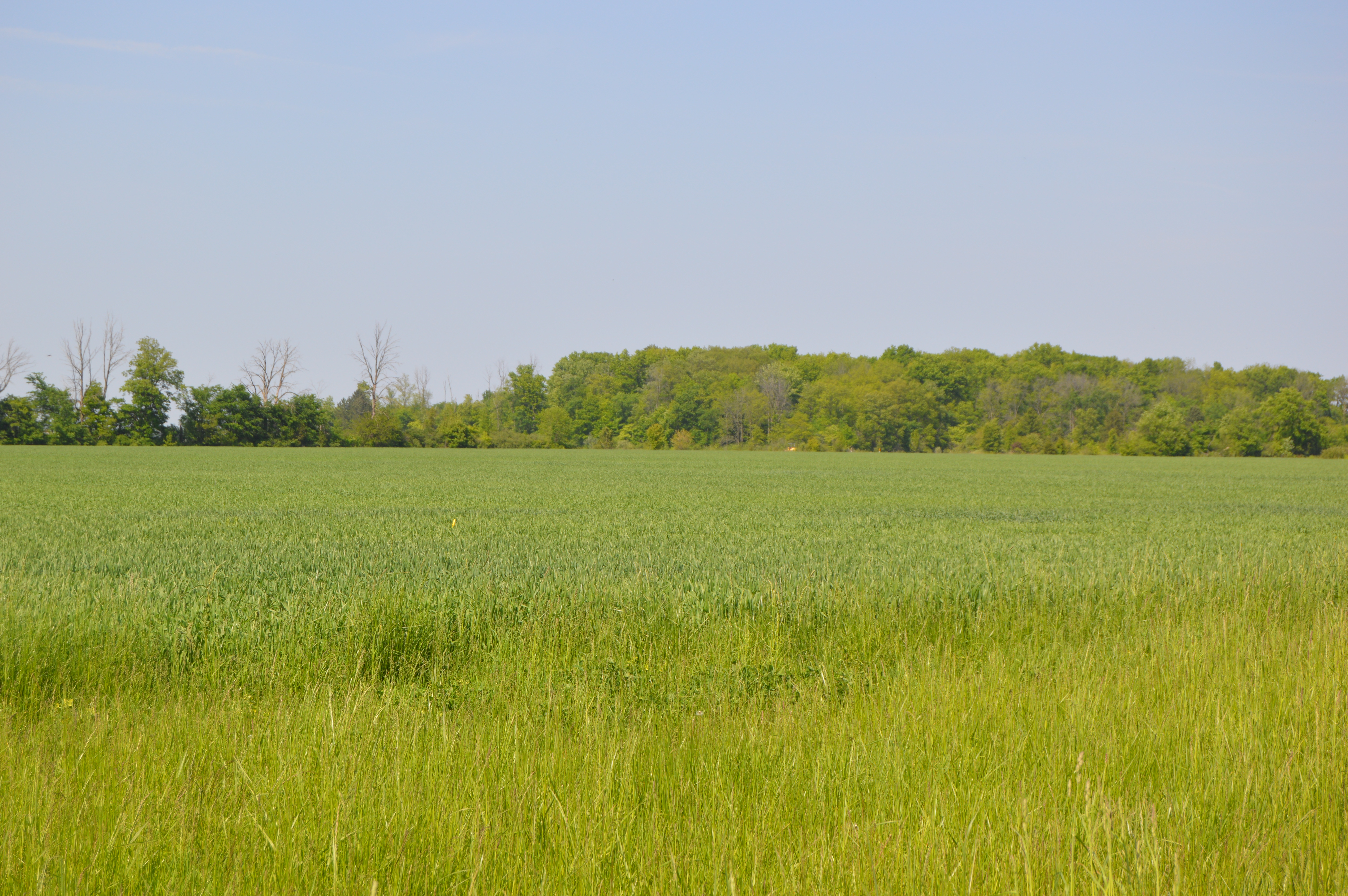 Wheat fields and woods on Trowbridge Road west of Clay Center in Allen Township, Ottawa County, Ohio, United States.